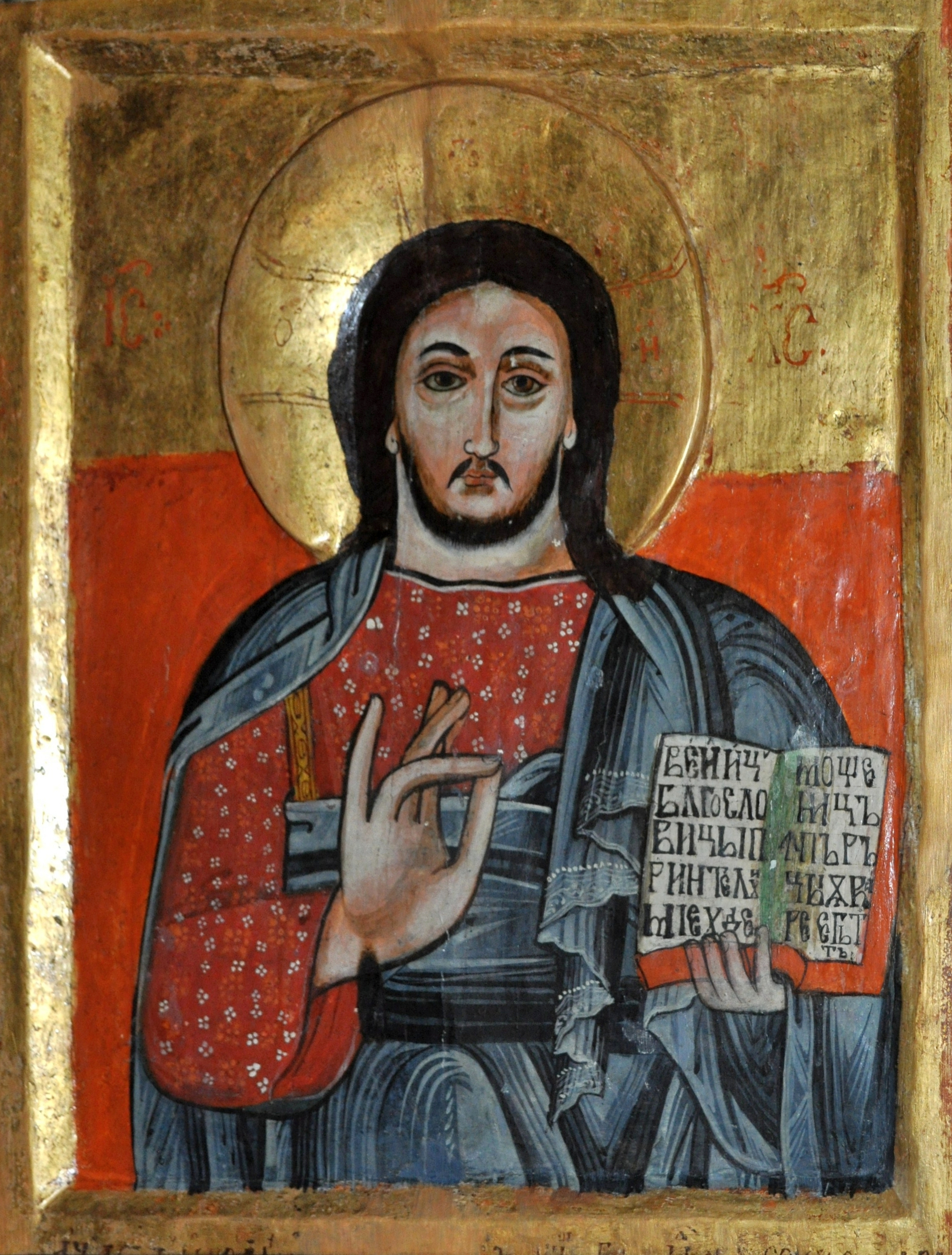 Wooden church in Sub Piatră, Alba countyRomână: Biserica de lemn din Sub Piatră, județul Alba